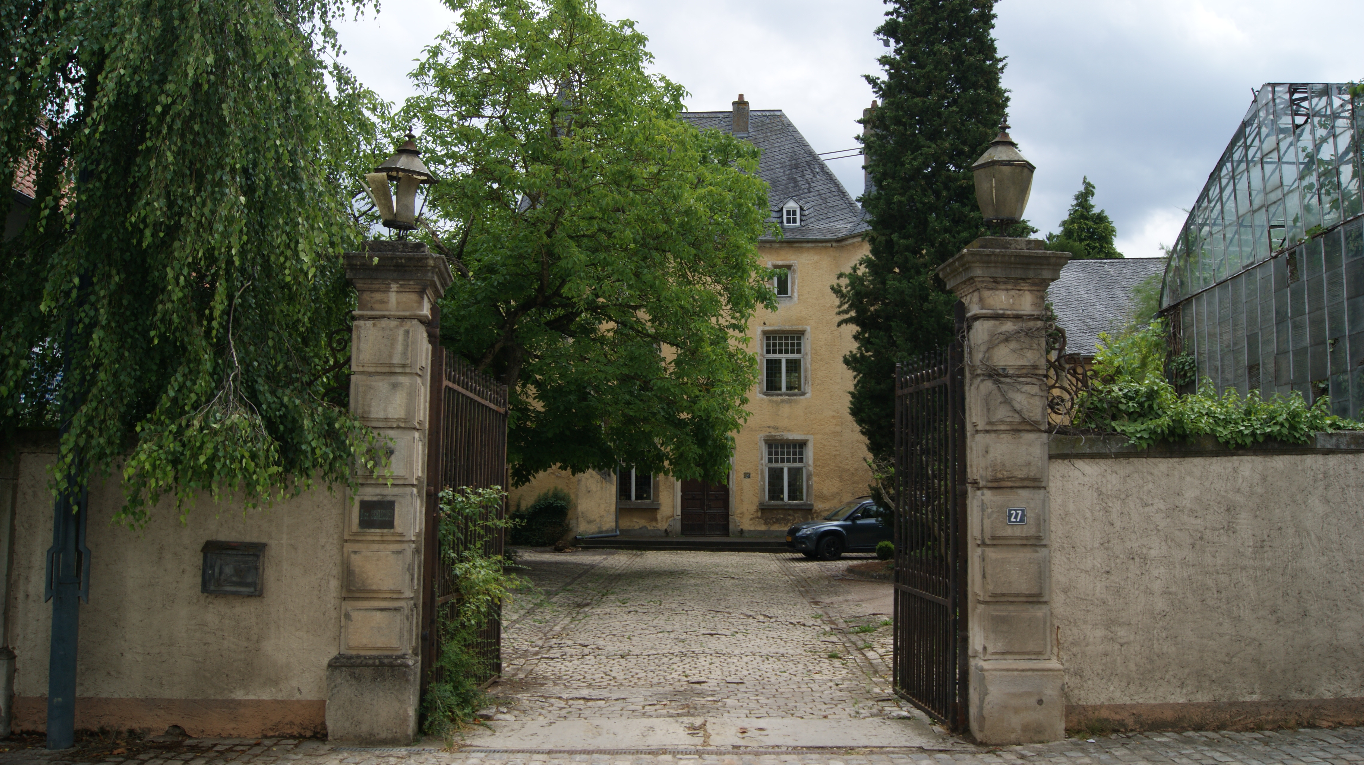 Wintrange Castle in Wintrange in the municipality Schengen, Luxembourg. Built in 1610.